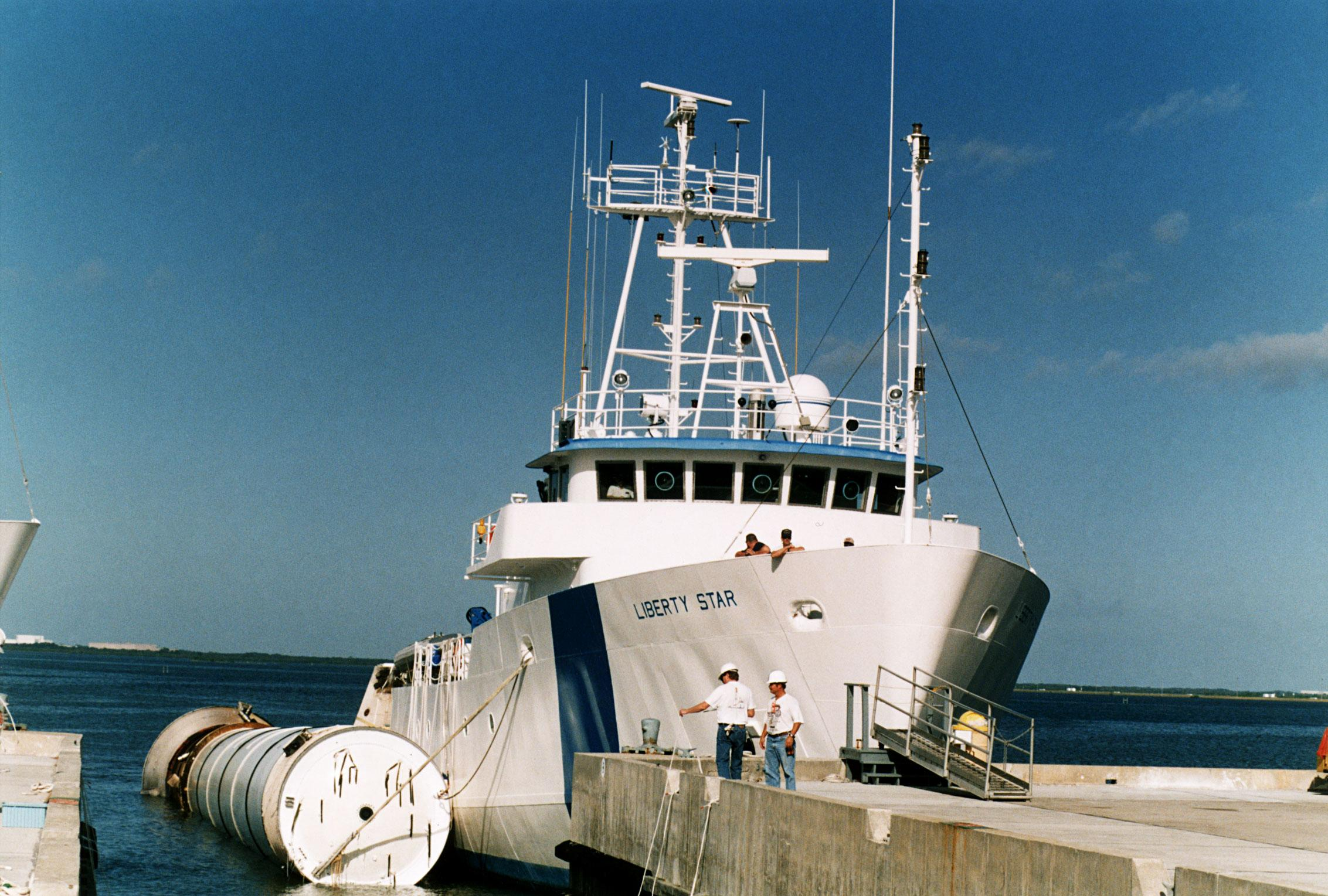 Seen carrying a spent solid rocket booster (SRB) from the STS-87 launch on Nov. 19 is the solid rocket booster recovery ship Liberty Star as it reenters the Hangar AF area at Cape Canaveral Air Station. Hangar AF is a building originally used for Project Mercury, the first U.S. manned space program. The SRBs are the largest solid propellant motors ever flown and the first designed for reuse. After a Shuttle is launched, the SRBs are jettisoned at two minutes, seven seconds into the flight. At six minutes and 44 seconds after liftoff, the spent SRBs, weighing about 165,000 lb., have slowed their descent speed to about 62 mph and splashdown takes place in a predetermined area. They are retrieved from the Atlantic Ocean by special recovery vessels and returned for refurbishment and eventual reuse on future Shuttle flights. Once at Hangar AF, the SRBs are unloaded onto a hoisting slip and mobile gantry cranes lift them onto tracked dollies where they are safed and undergo their first washing.